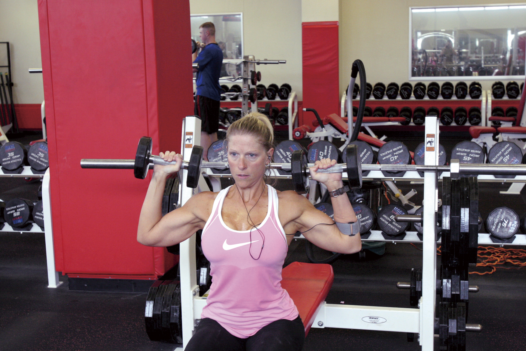 Erica Ortensie pumps iron in Gunners Gym July 23 in preparation for the 15th Annual Far East Bodybuilding Competition at the Camp Foster Theater Sunday.